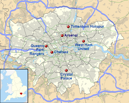 To facilitate